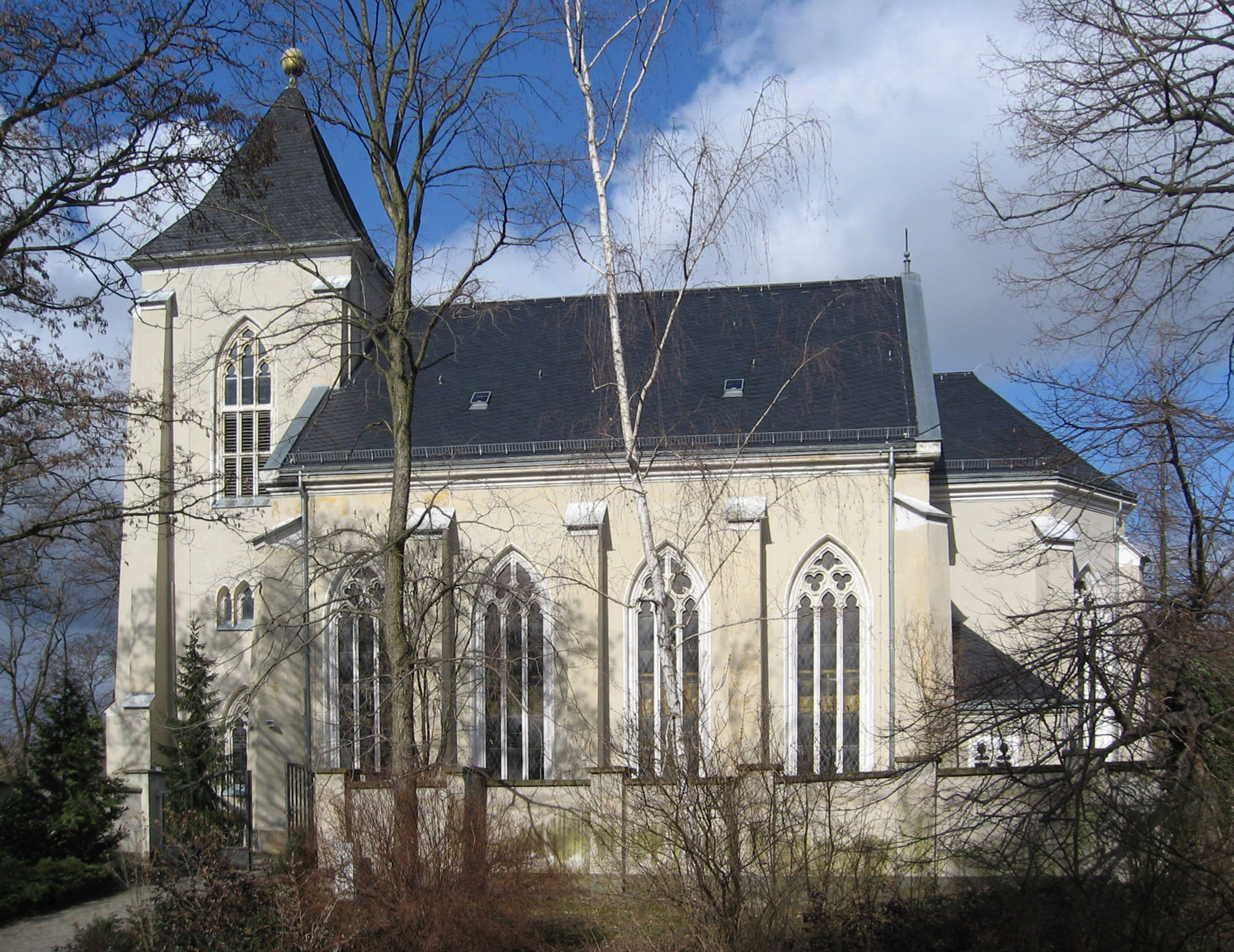 Church Leipzig-Portitz, Altes Dorf 5